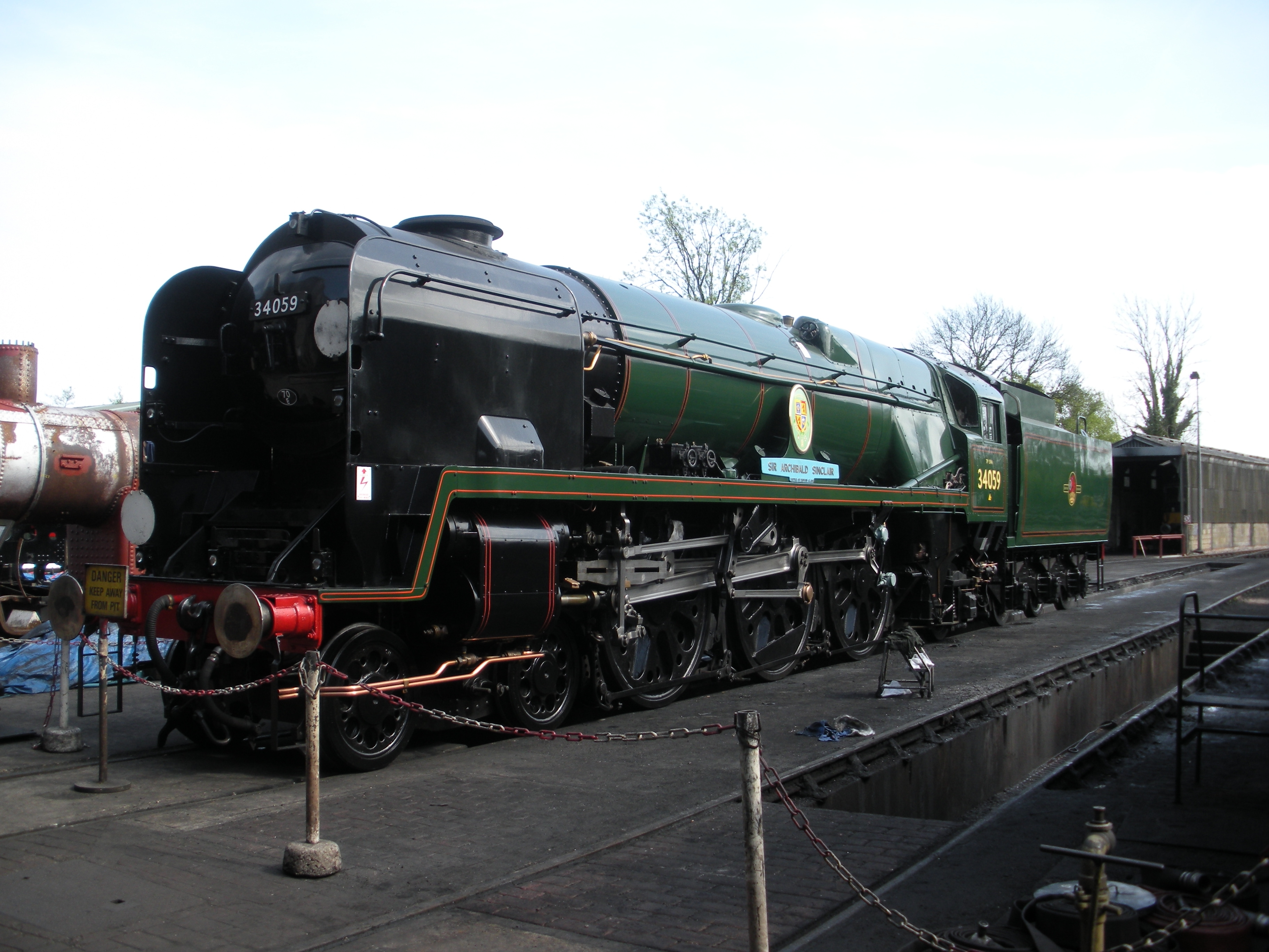 Rebuilt Battle of Britain locomotive 'Sir Archibald Sinclair' at Sheffield Park on the Bluebell Railway